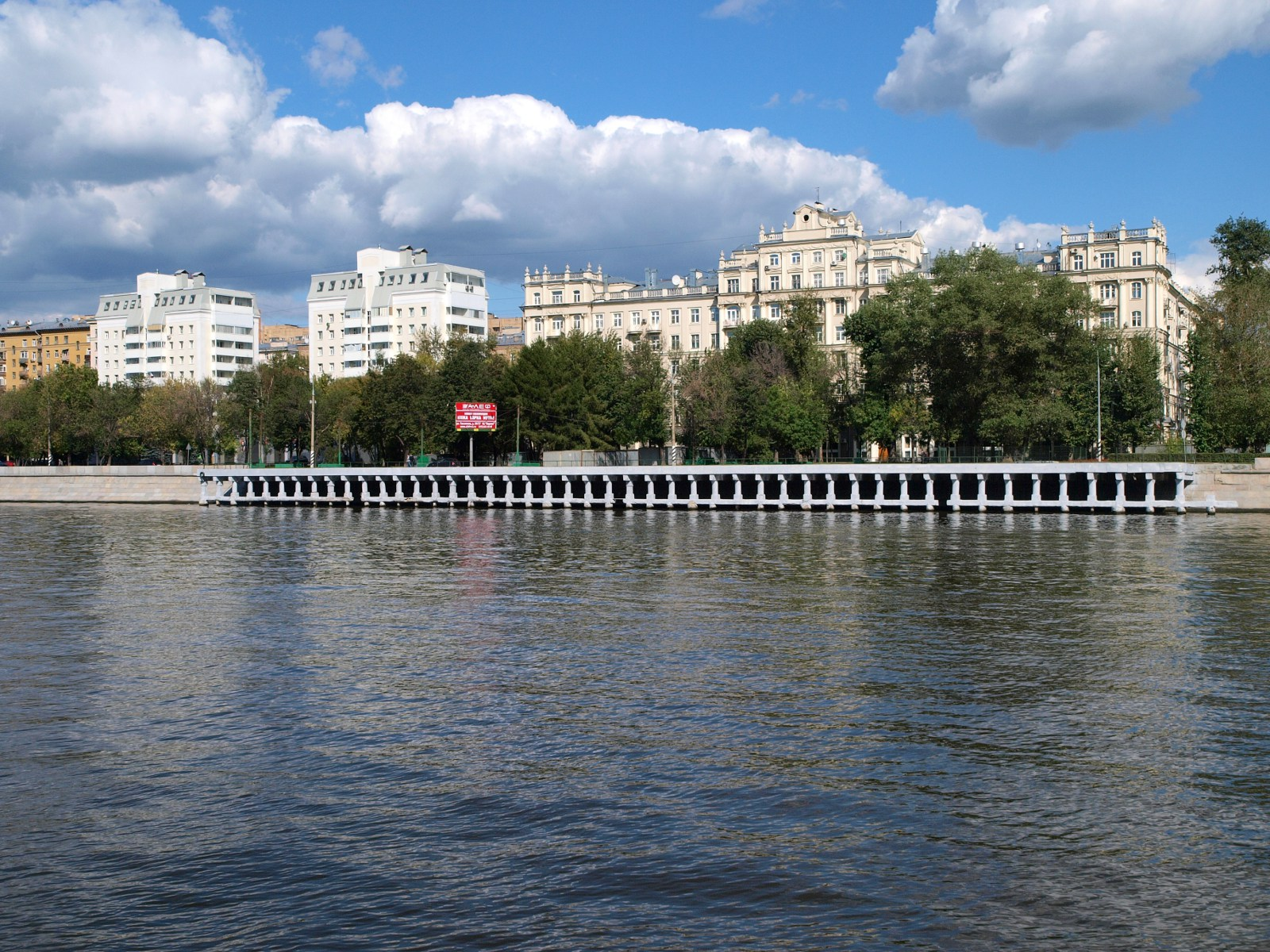 Krasnokholmskaya Embankment, Moscpow.